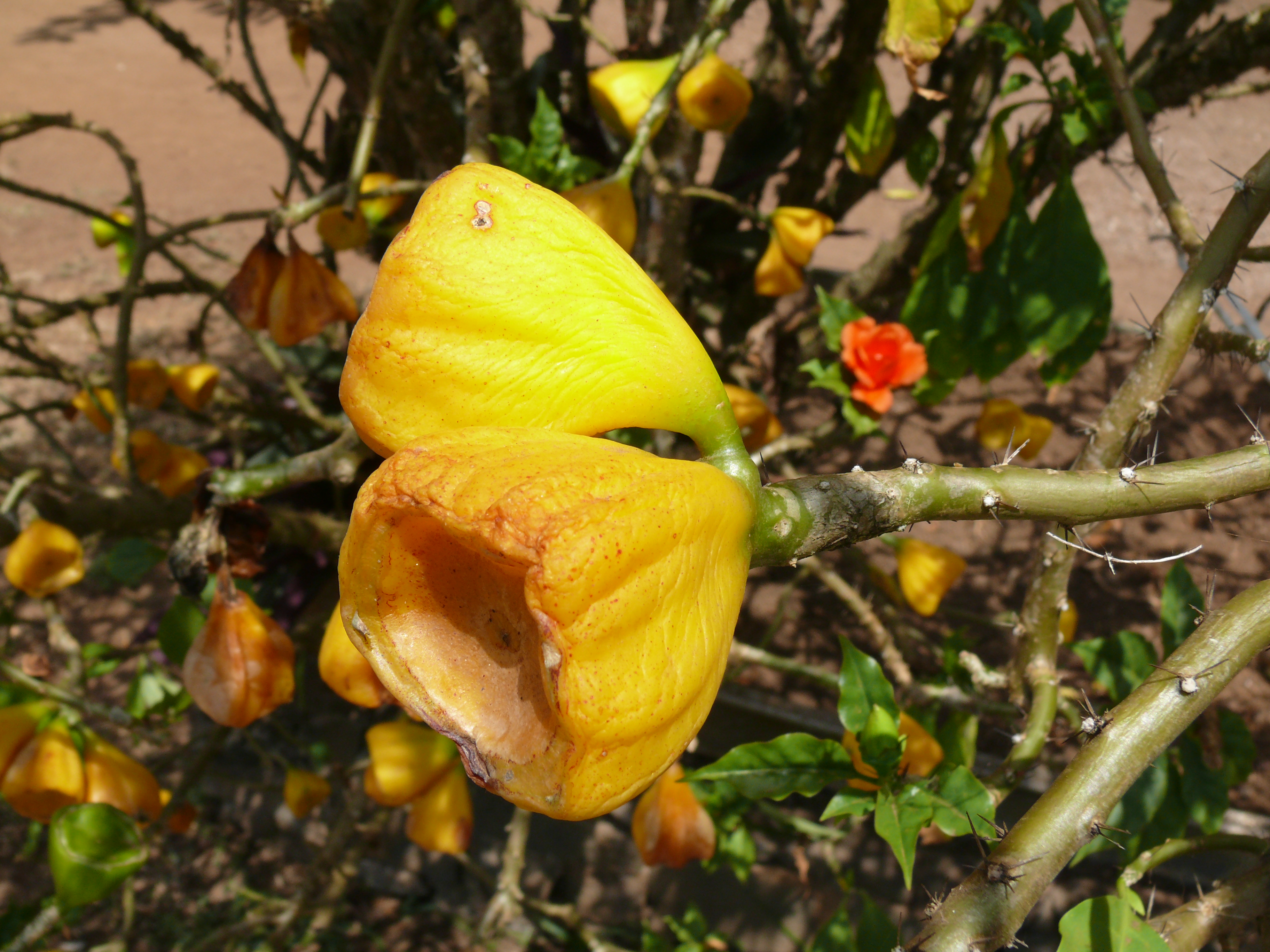 Orange-yellow ruit of a tree found on Royale Island in French Guiana.